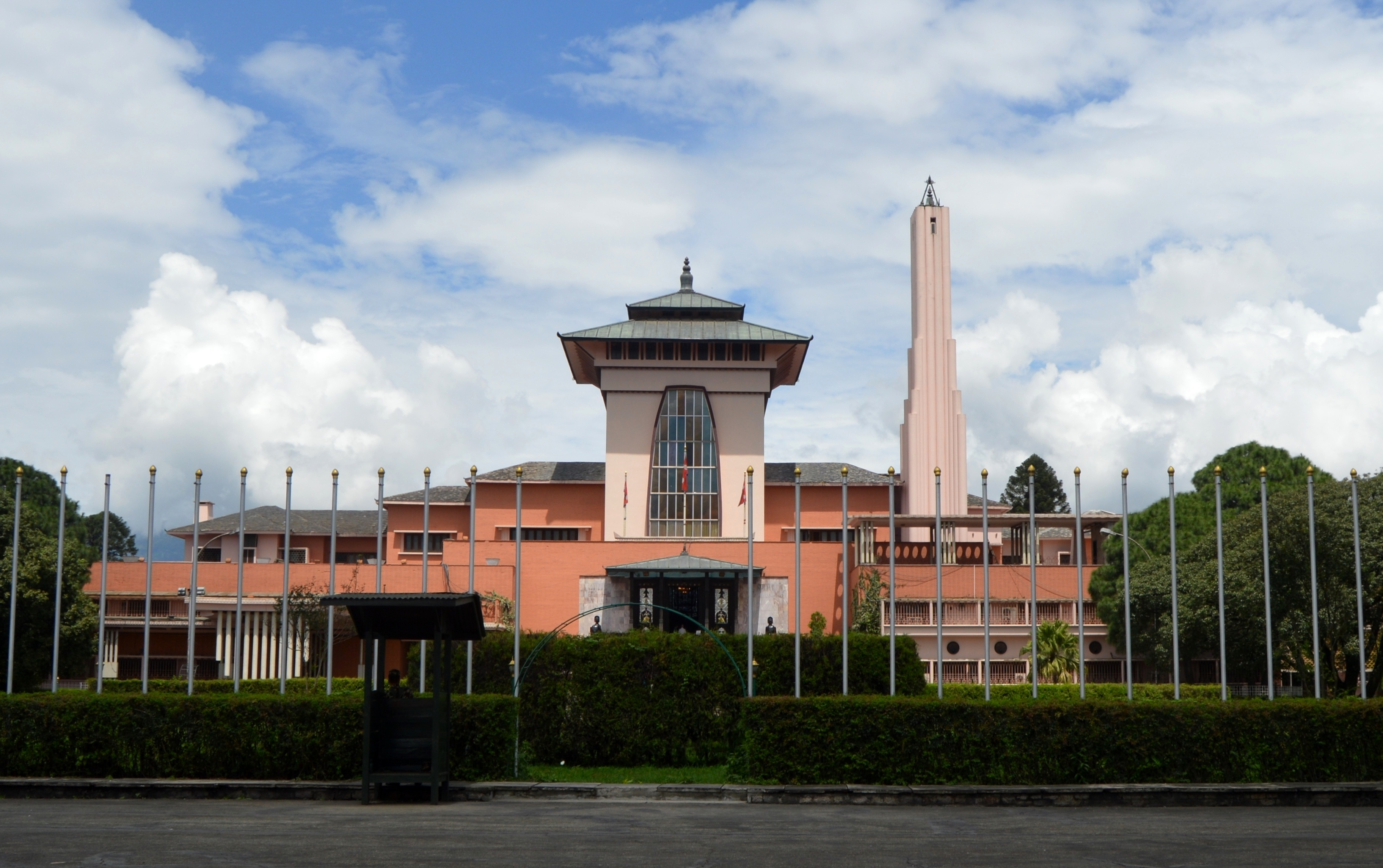 Narayanhiti Palace Museum which long served as residence and principal workplace of the reigning Monarch of Kingdom of Nepal. It was built by king Mahendra in 1961 following the design by Californian architect Benjamin Polk. After the 2006 revolution, this royal palace was turned into a public museum.